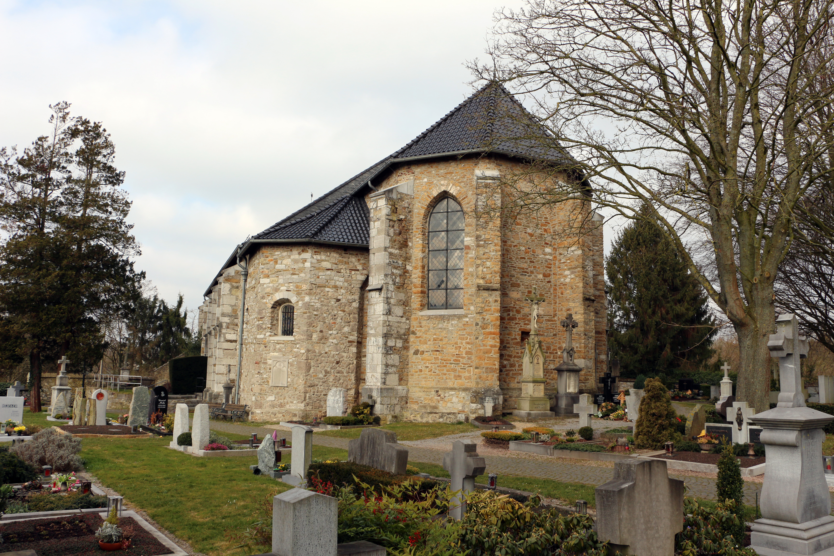 Kornelimünster